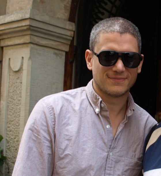 Wentworth Miller